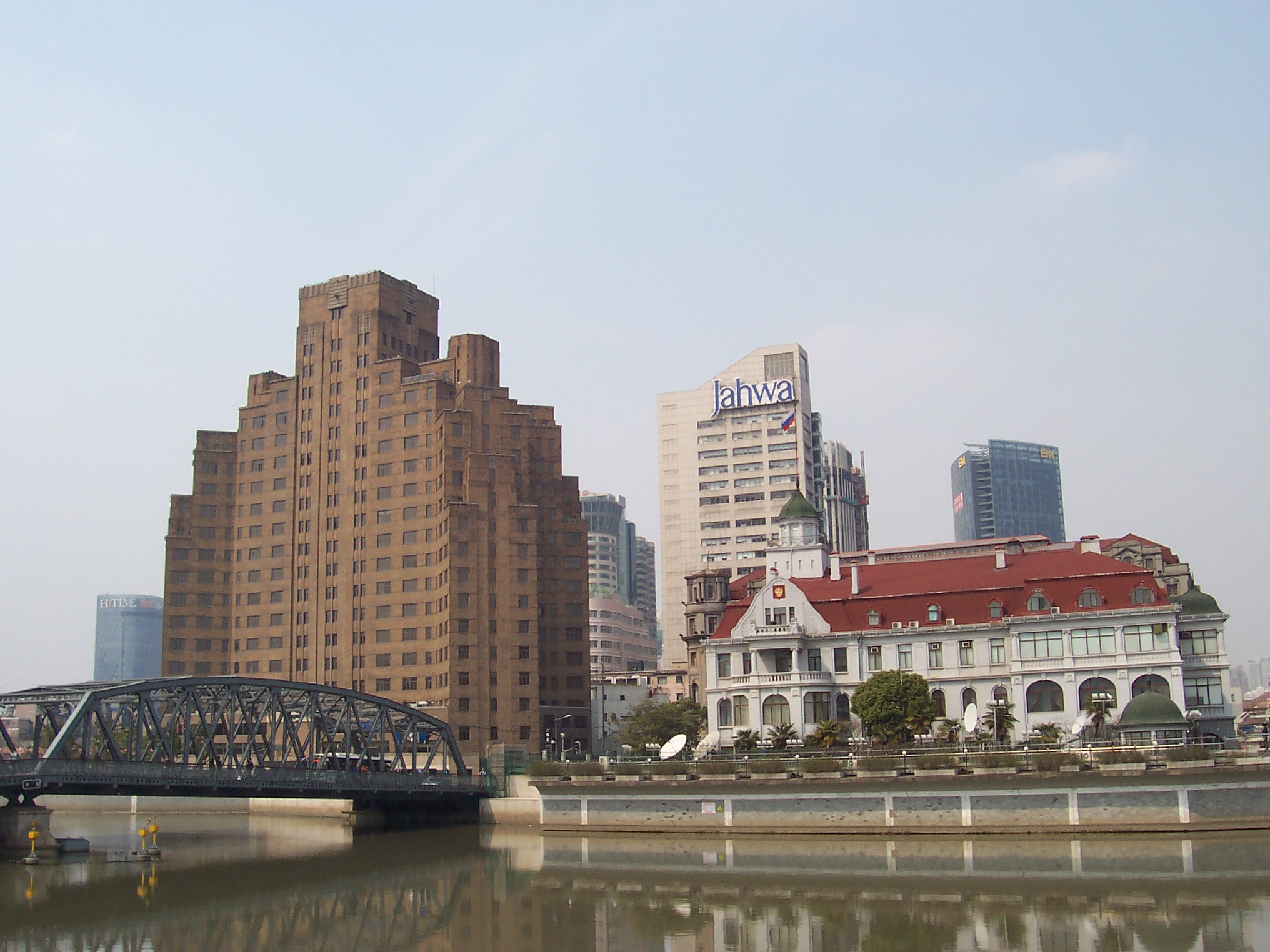 Broadway Mansions and Garden Bridge adjacent to the Bund in Shanghai